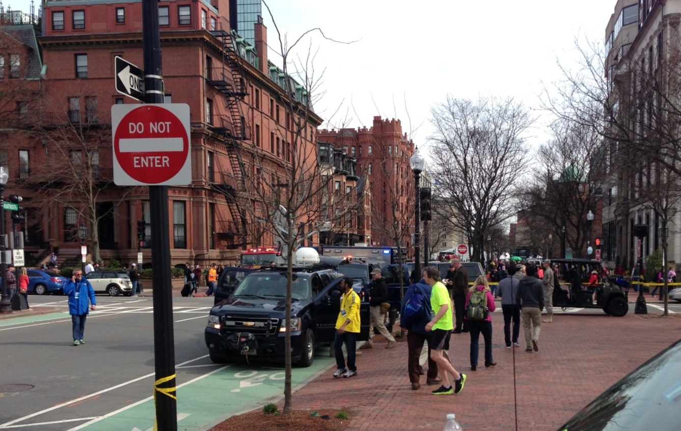 A hazmat biohazard team near the finish line of the 2013 Boston Marathon at Boylston St, after the explosions there.